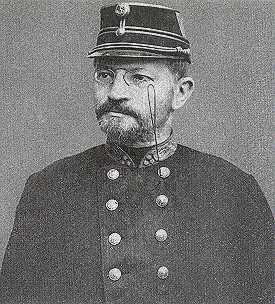 Waze001 p01.gif Wazenaar, alias from Amand de Vos, Flemish writer